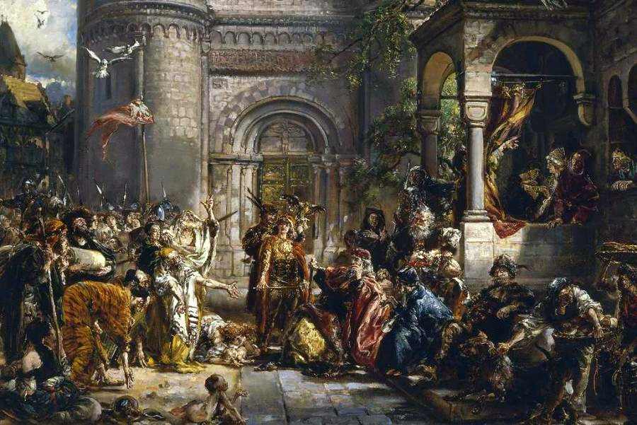 Reception of Jews in Poland by Jan Matejko (1889), oil study held at the Royal Castle Museum in Warsaw (see final painting, below).